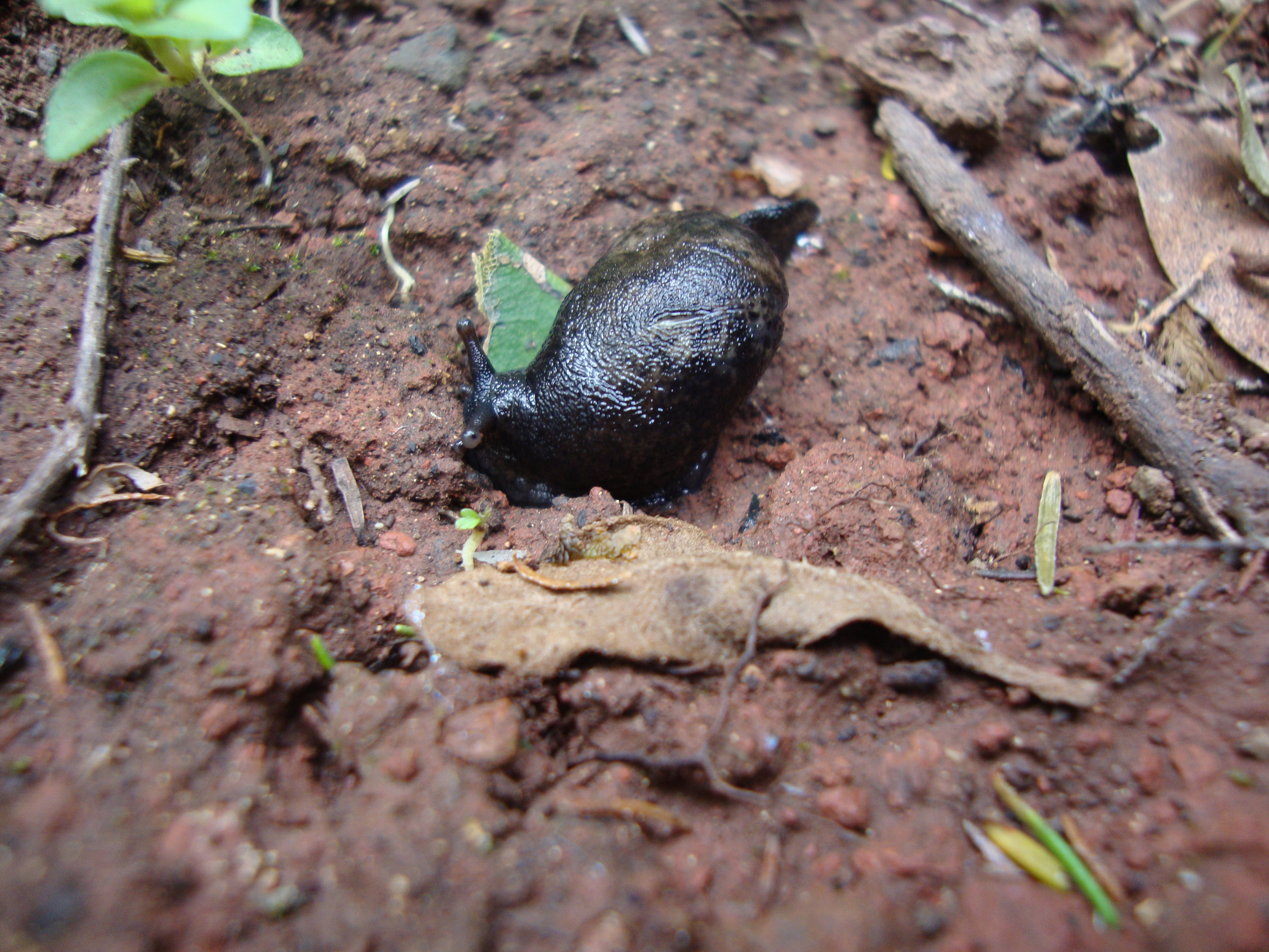 Slug found in Anaga, Tenerife